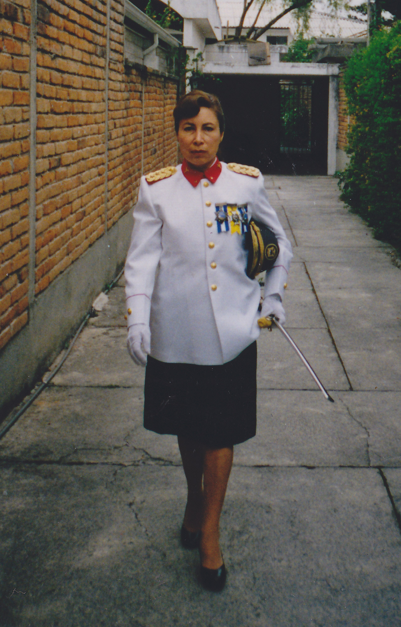 Anita Velastegui wearing in military's formal uniform